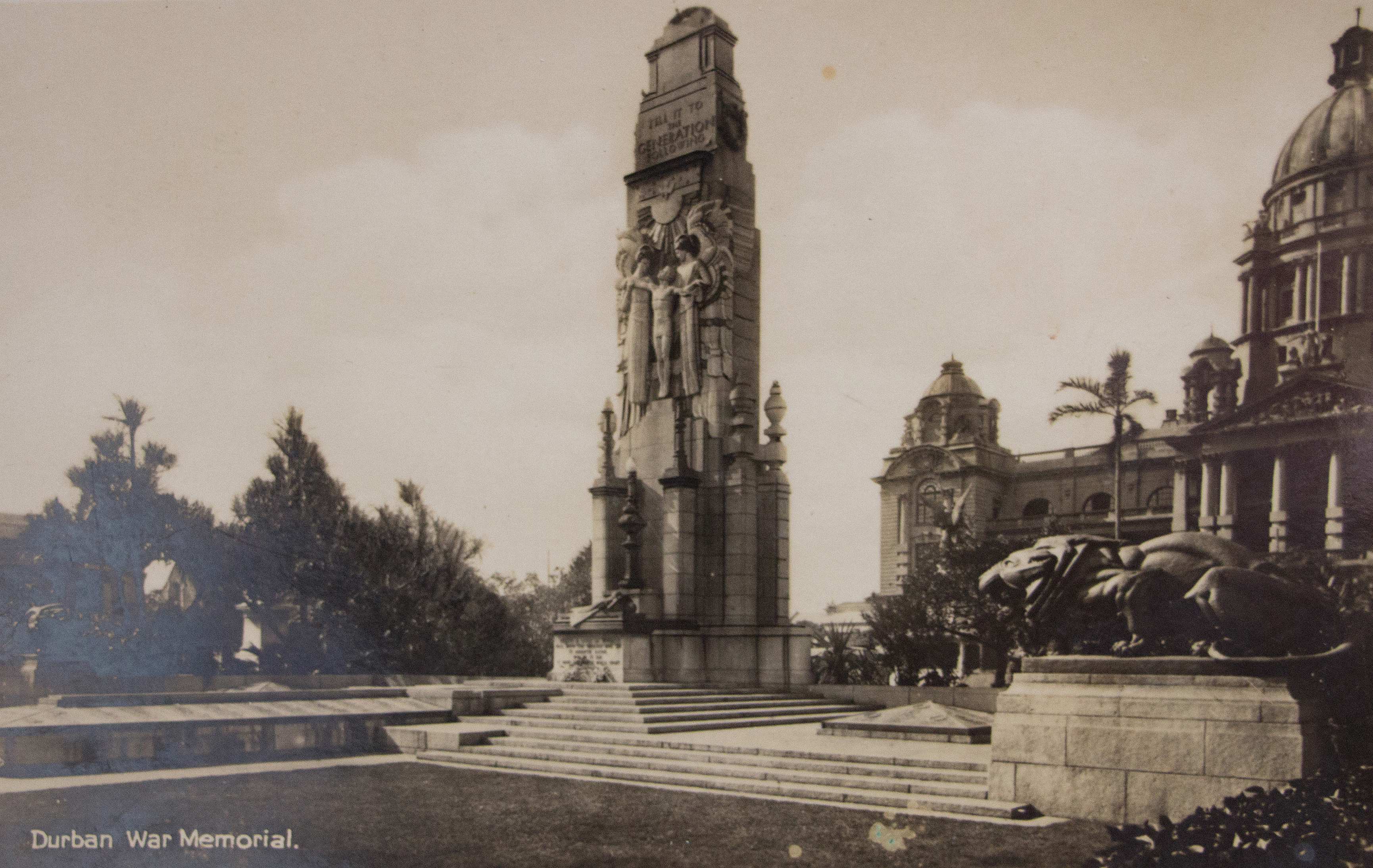 Vintage postcard published by the Newman Art Publishing Co. titled "Durban War Memorial"